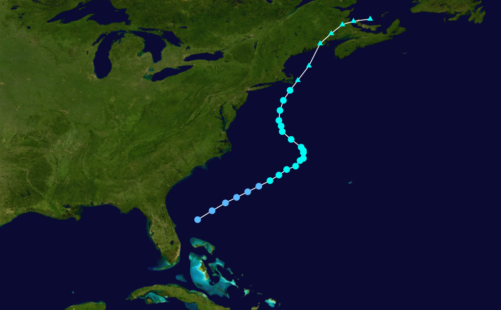 Tropical Storm Carrie (1972) track. Uses the color scheme from the Saffir-Simpson Hurricane Scale.